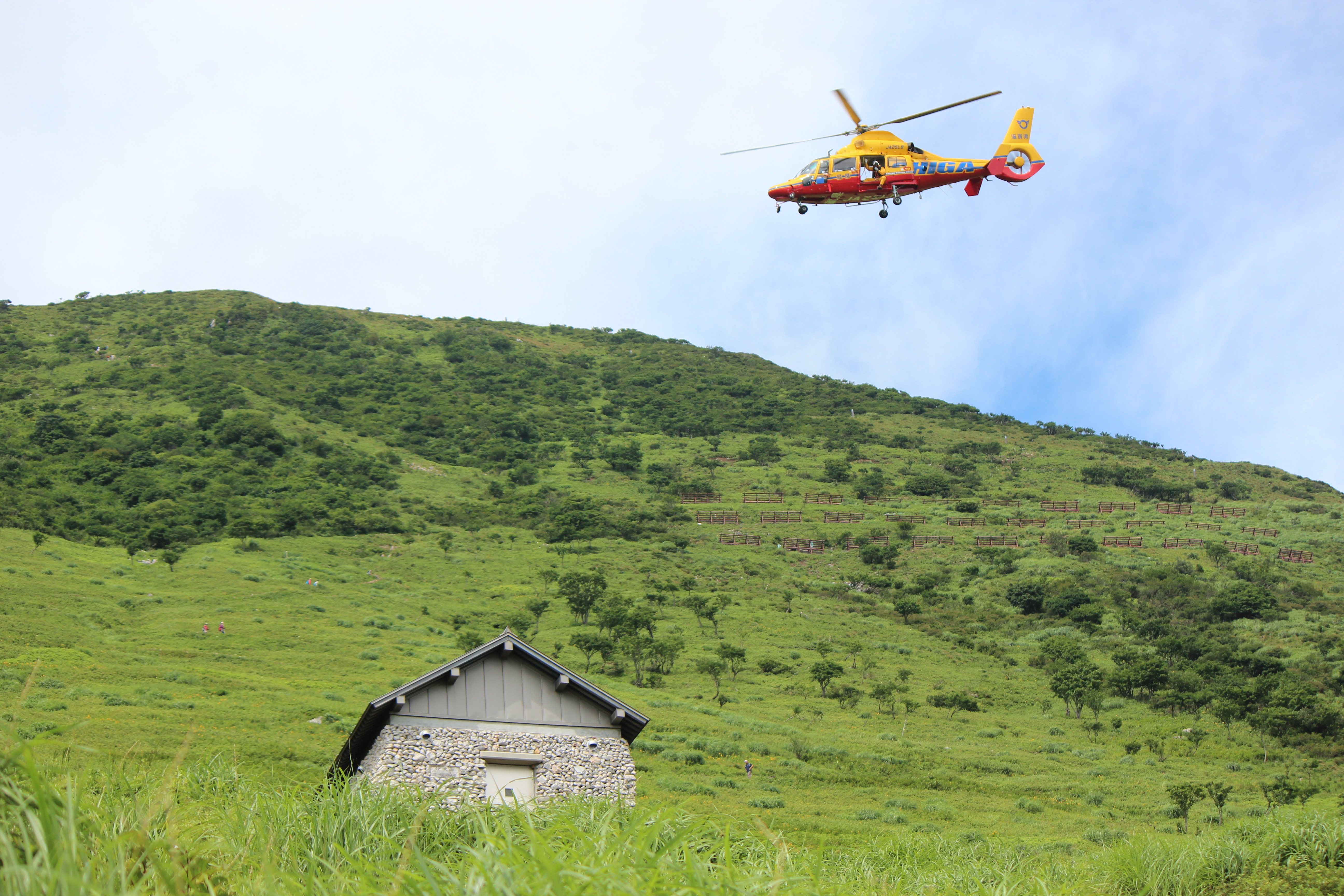 Rescue helicopter of Shiga Prefecture Biwa (AS 365 N3) on Mount Ibuki in Maibara City, Shiga Prefecture, Japan